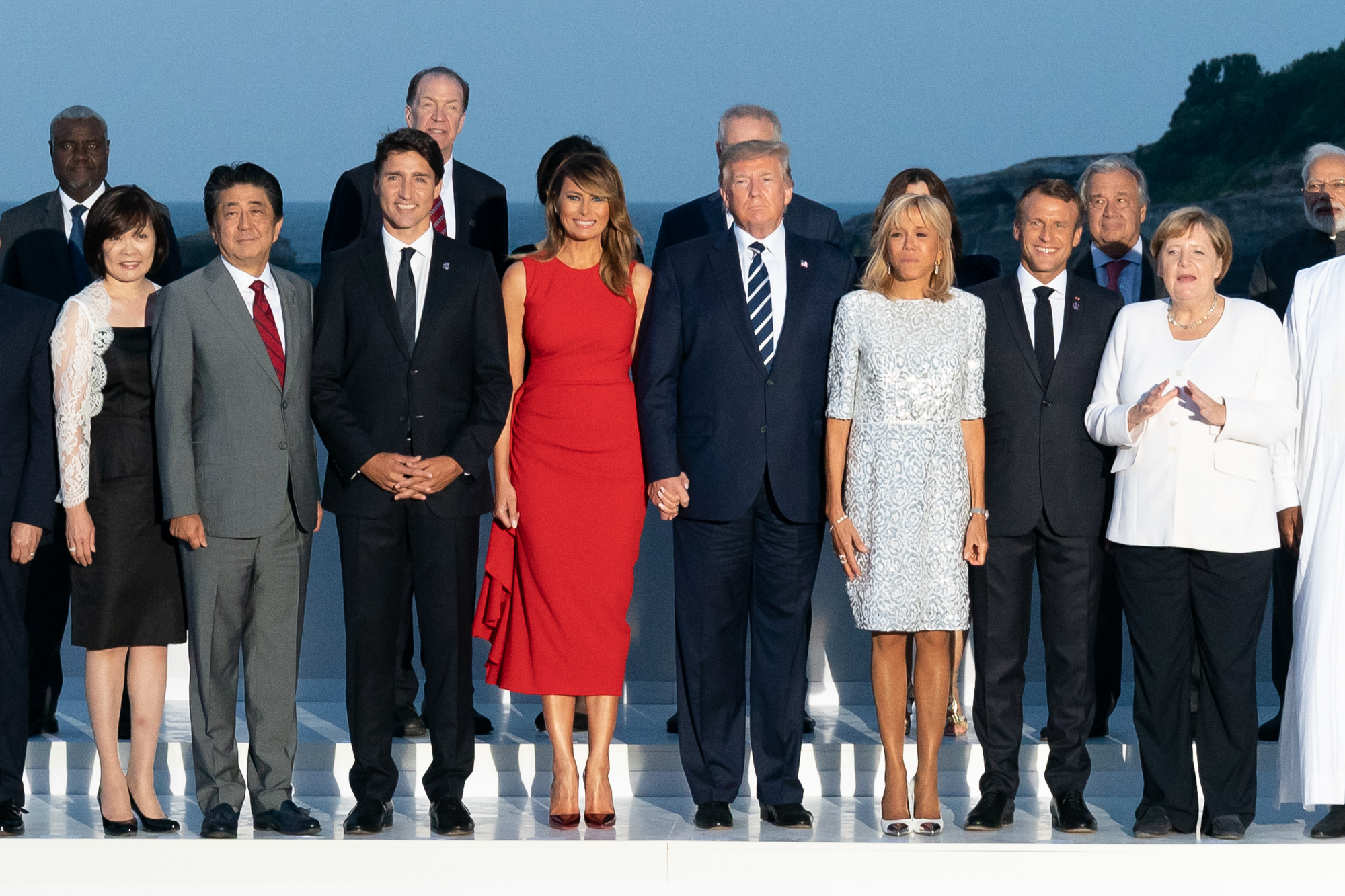 President Donald J. Trump and First Lady Melania Trump participate in a family photo with G7 leaders, extended partners and their spouses during the G7 Extended Partners Program Sunday, Aug. 25, 2019, at the Hotel du Palais in Biarritz, France. (Official White House Photo by Andrea Hanks)